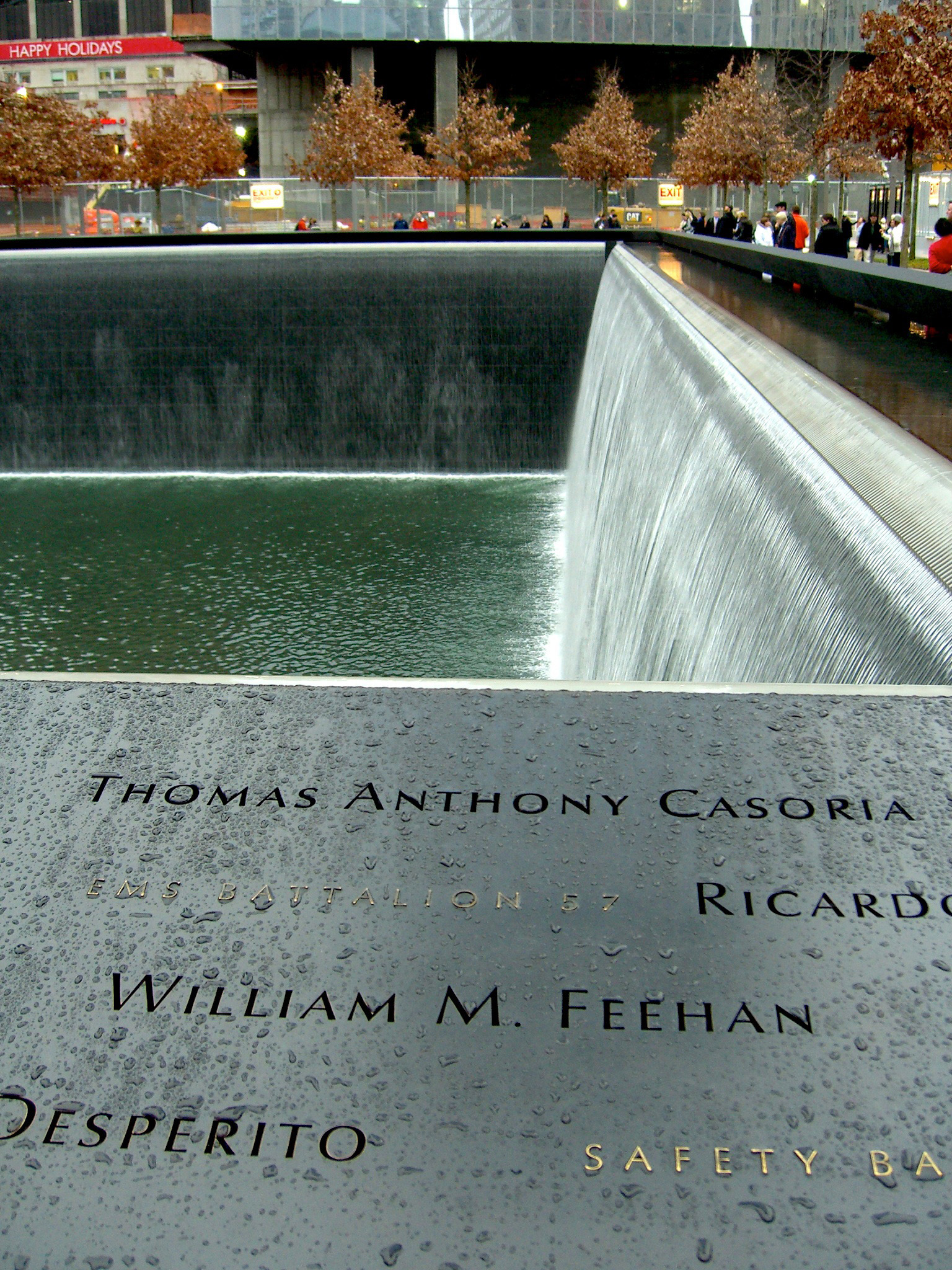 The name of William M. Feehan is seen among those of other first responders inscribed on bronze panel S-18 of the South Pool of the National September 11 Memorial in Manhattan, on December 6, 2011. This photo was created by Luigi Novi. If you have any questions, you can contact me by sending me an email or User talk:Nightscream